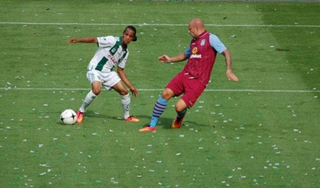 Jarchinio Antonia in action with the ball for FC Groningen against Philippe Senderos in a preseason friendly with Aston Villa F.C.